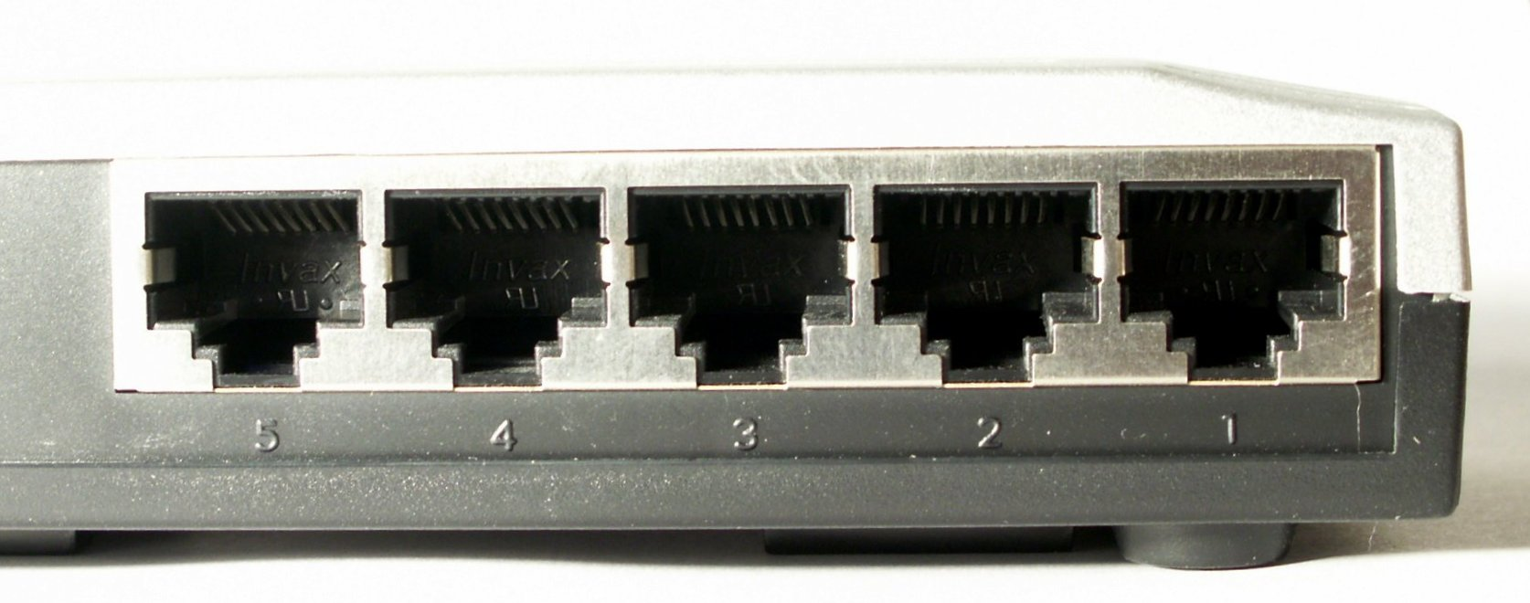 Ethernet switch Atlantis A02-F5P 5 ports backend detailed